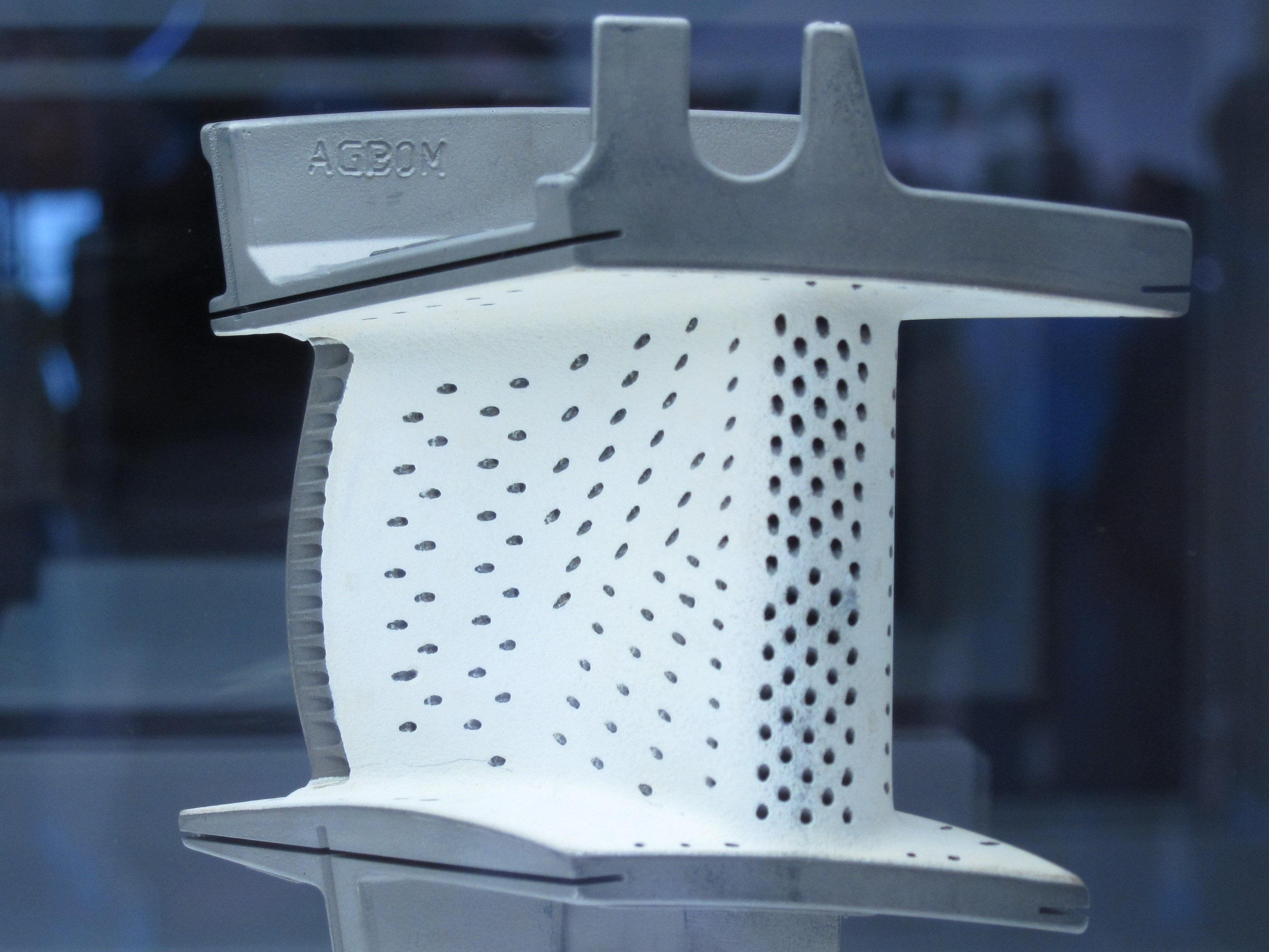 A nozzle guide vane seen after addition of cover and baffles, airflow check, and final inspection. This is one of ten blade samples showcasing the repair process developed by MTU engines to send damaged blades back into service. The blades were on display at the Paris Air Show 2013; they are high-pressure internally-cooled turbine nozzle guide vanes on the V2500 engine.